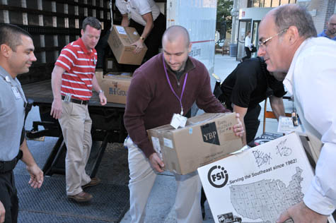 In 2011, a contribution of 125 boxes of medical journals and books donated by North Carolina medical professionals began its journey to the Scientific Medical Library of Moldova to provide current medical texts for Moldovan health care providers who don’t always have access to the latest medical research and treatments often found in American medical publications. Prior to this latest donation, over 21,000 medical journals and books had previously been donated.